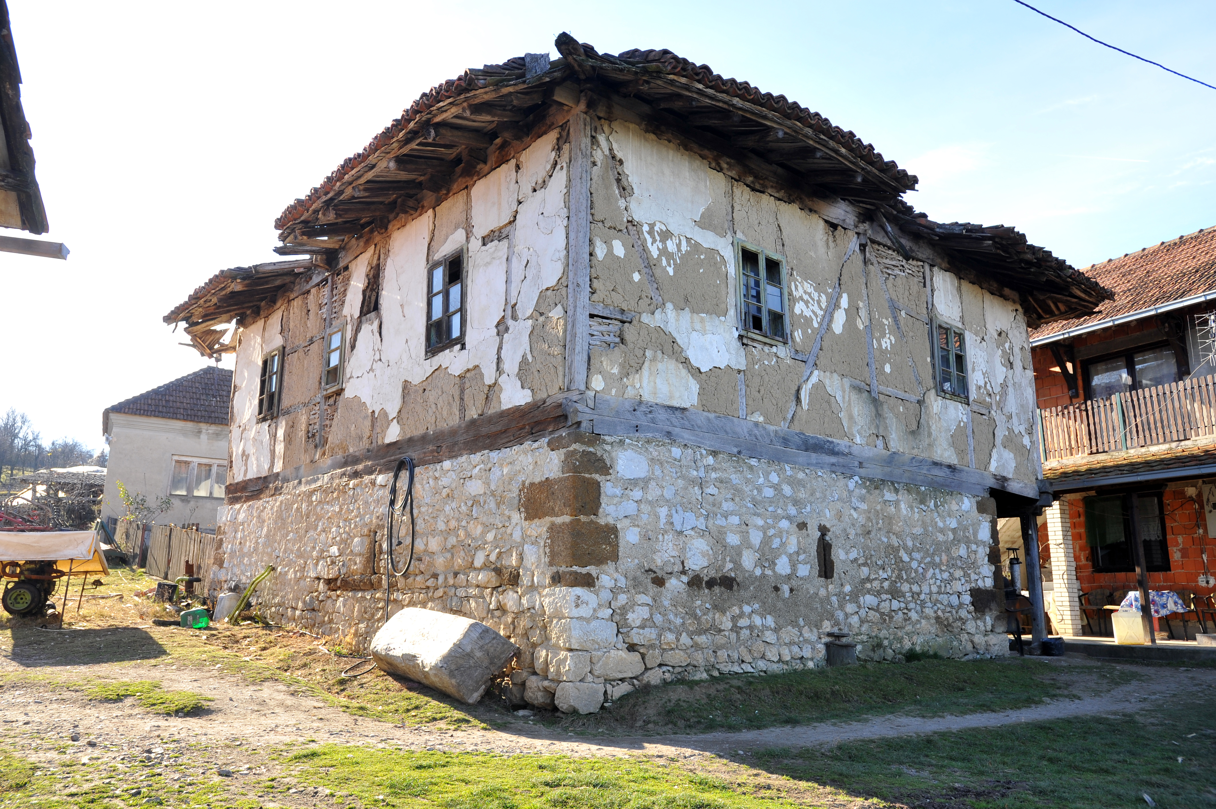 Konak of family Marković in Ratkovac, Lajkovac